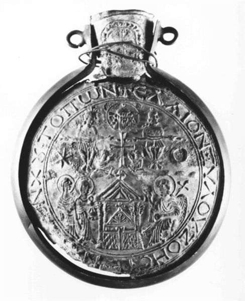 Monza/Bobbio flasks ampullae (pilgrimage ampullae with image of the Holy Sepulchre), Bobbio Abbey, VI c.